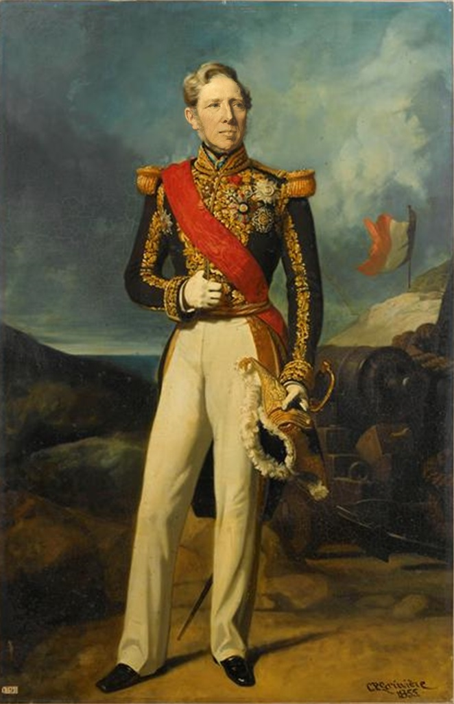 Portrait of Alexandre Ferdinand Parseval-Deschenes (1790-1860), Admiral